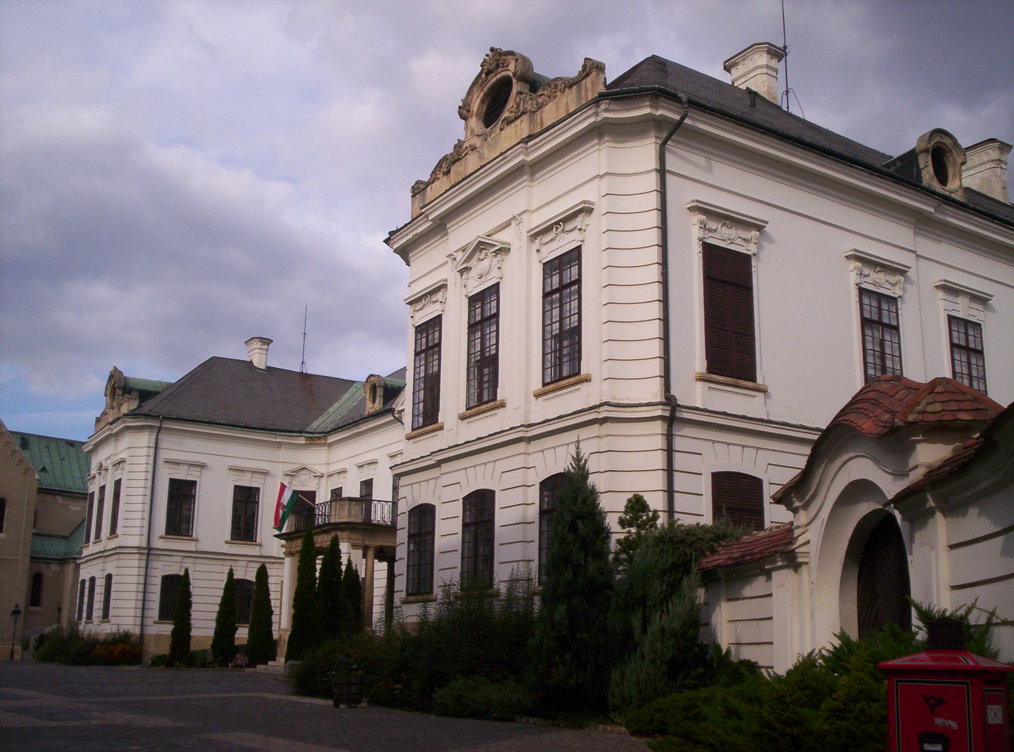 Description: Archbishop’s Palace of Veszprém